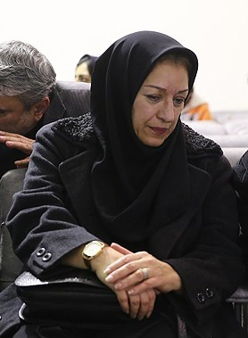 مینو فرشچی در مراسم رونمایی از پوستر سی و دومین جشنواره فیلم فجر